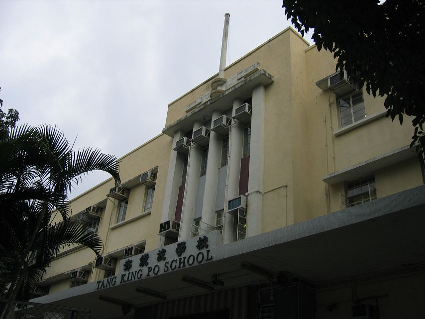 the front door of Tang king po school KL HK